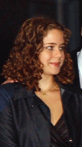 The Brazilian actress Leandra Leal